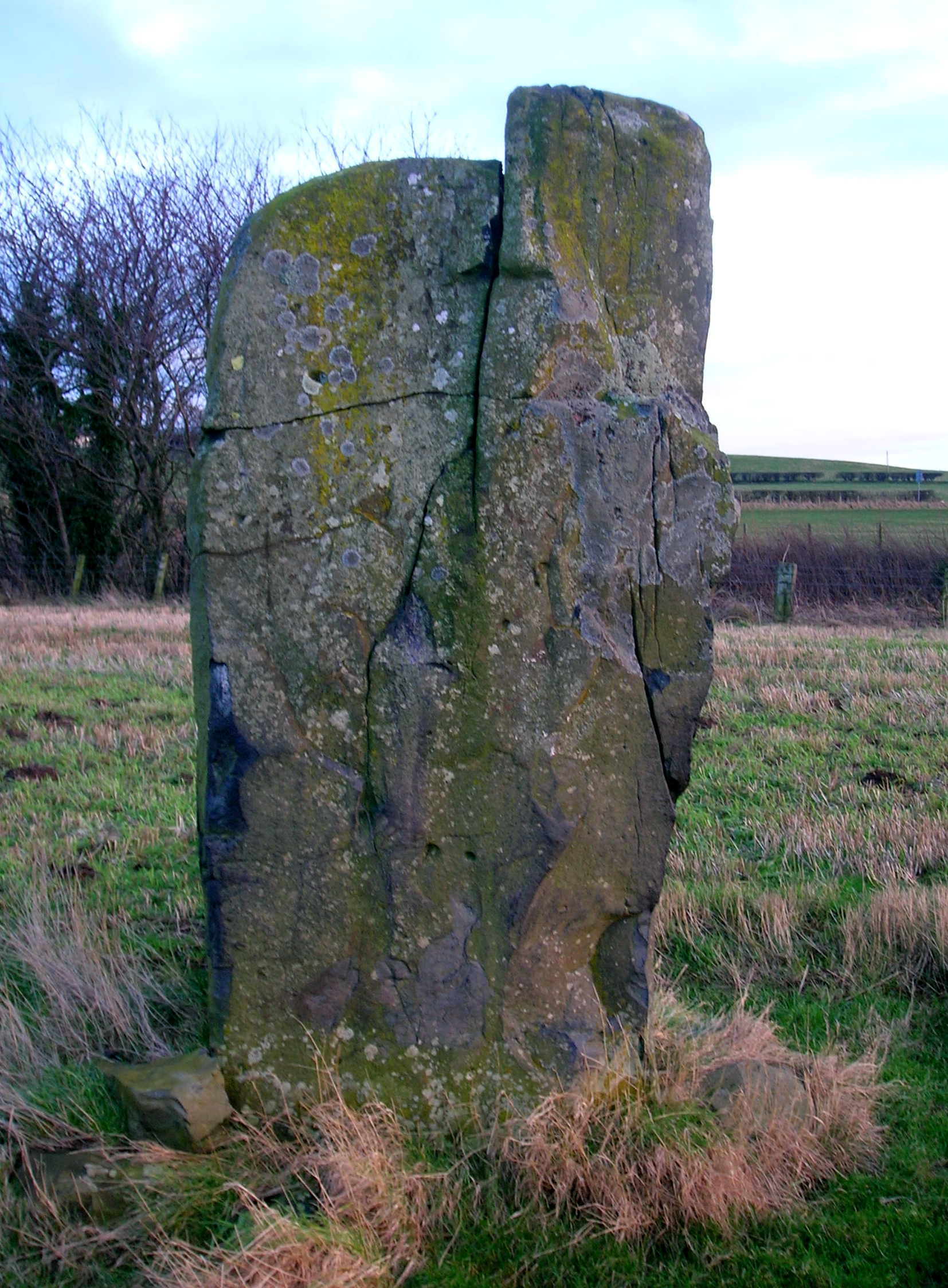 The Drybridge Menhir from the north, North Ayrshire, Scotland